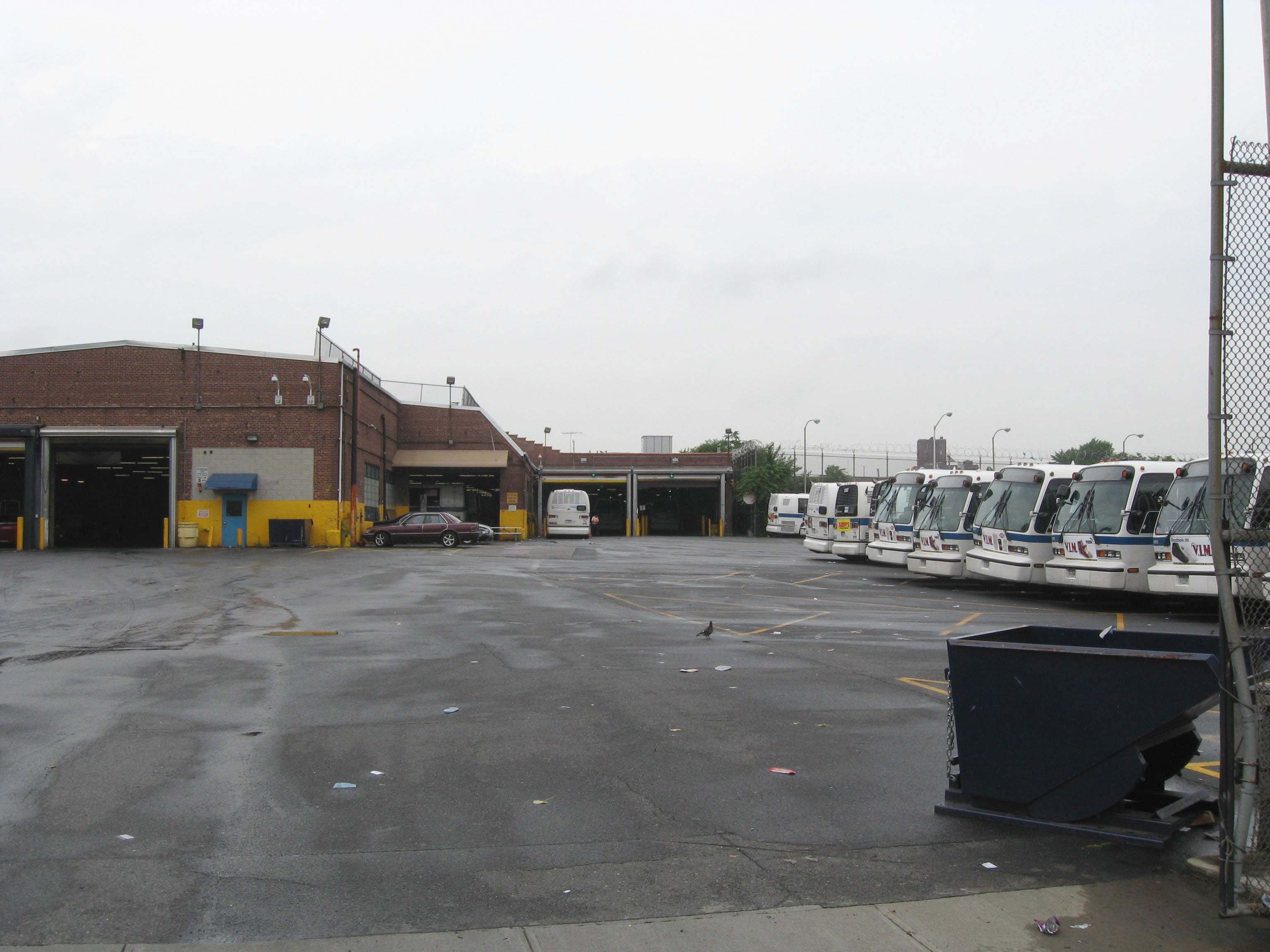 Looking north with RTS Buses in the lot of Jamaica Bus Depot on a rainy midday August 2 2008